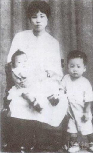 1924 Yang Kahui and children. 毛澤東的第二任妻子楊開慧，與他們的孩子，兩歲的岸英（右）、一歲的岸青，攝於一九二­四年上海。被毛稱作他最愛的女人的開慧，後­來被毛遺棄，又因毛的緣故於一九三○年被國­民黨槍殺。